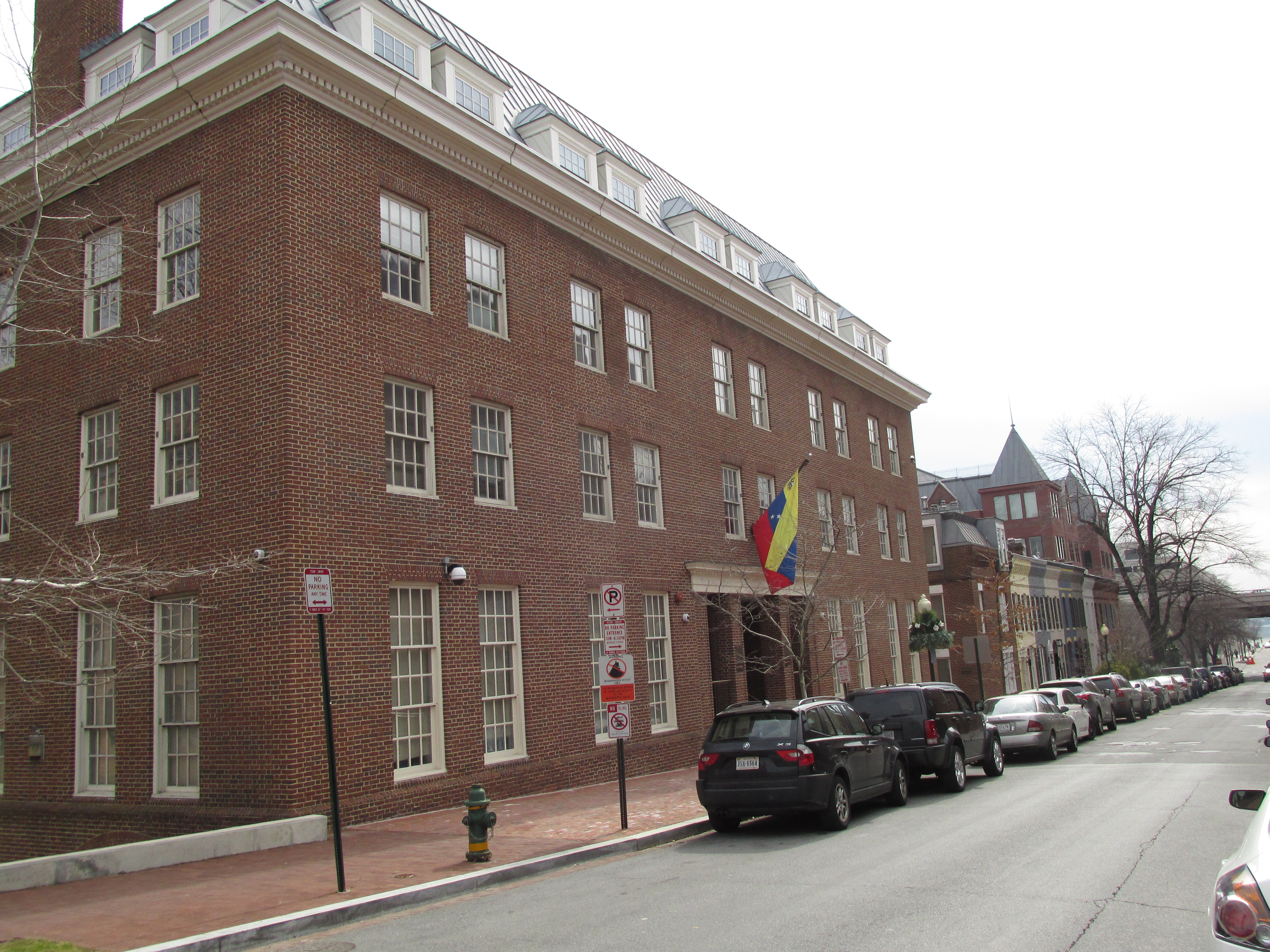 Embassy of Venezuela, Washington, D.C., 1099 30th Street, N.W.